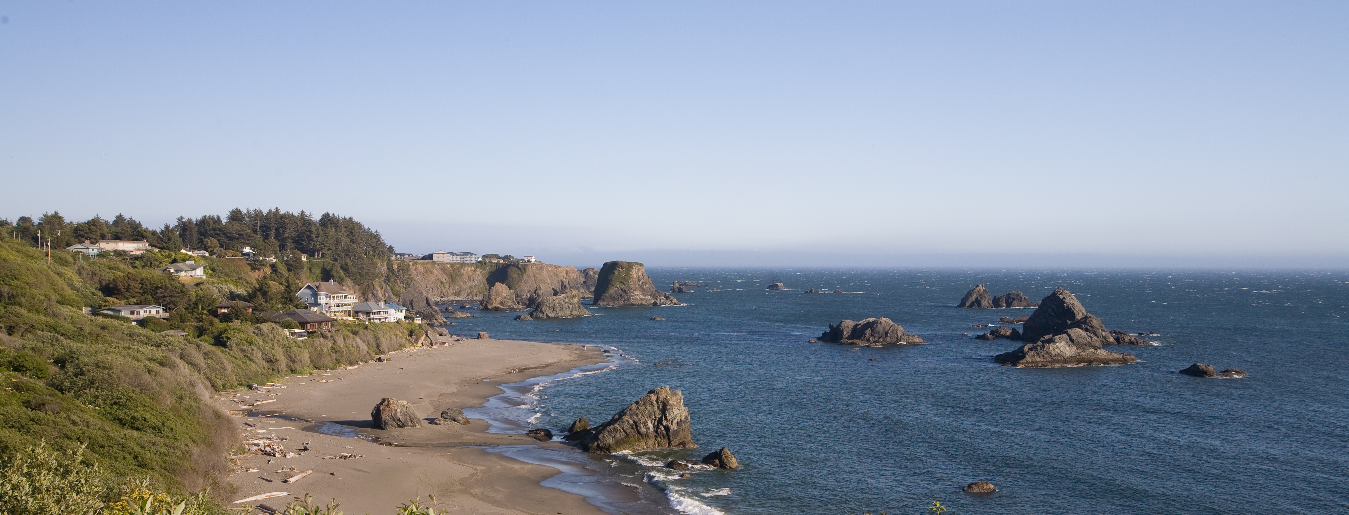 View of South Harris Beach and Mill Beach in Brookings, Oregon from Harris State Park.